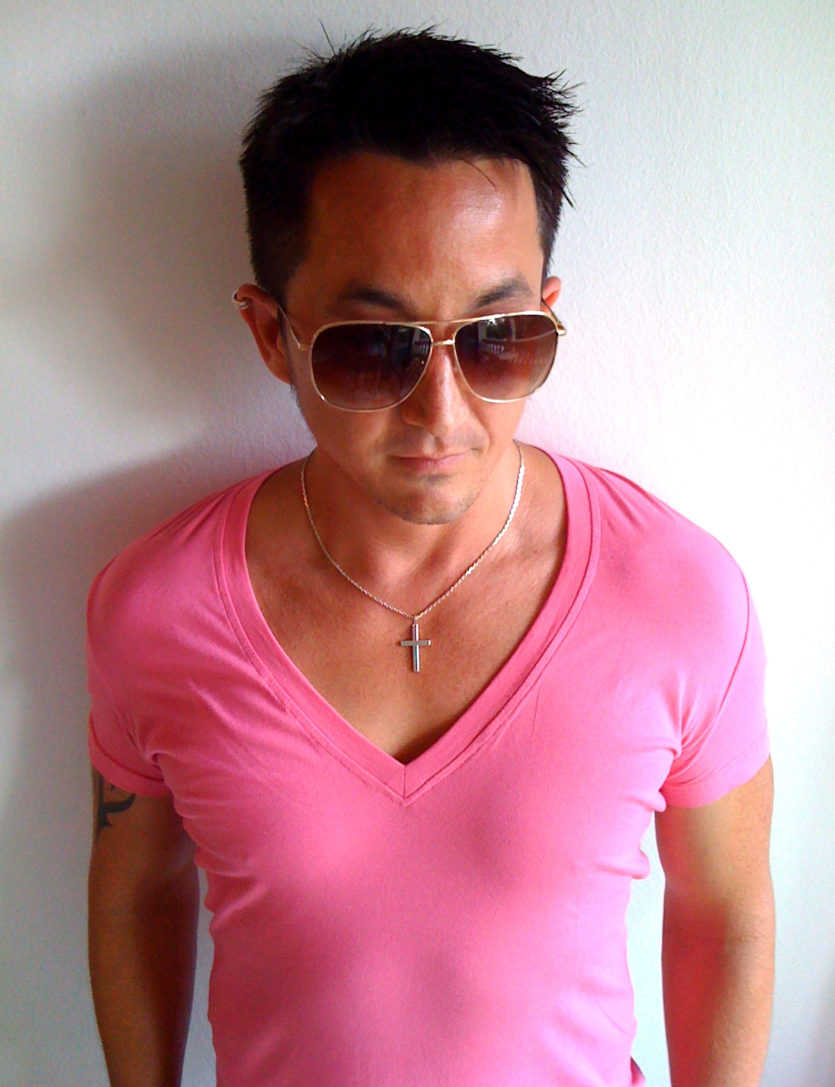 deutsch